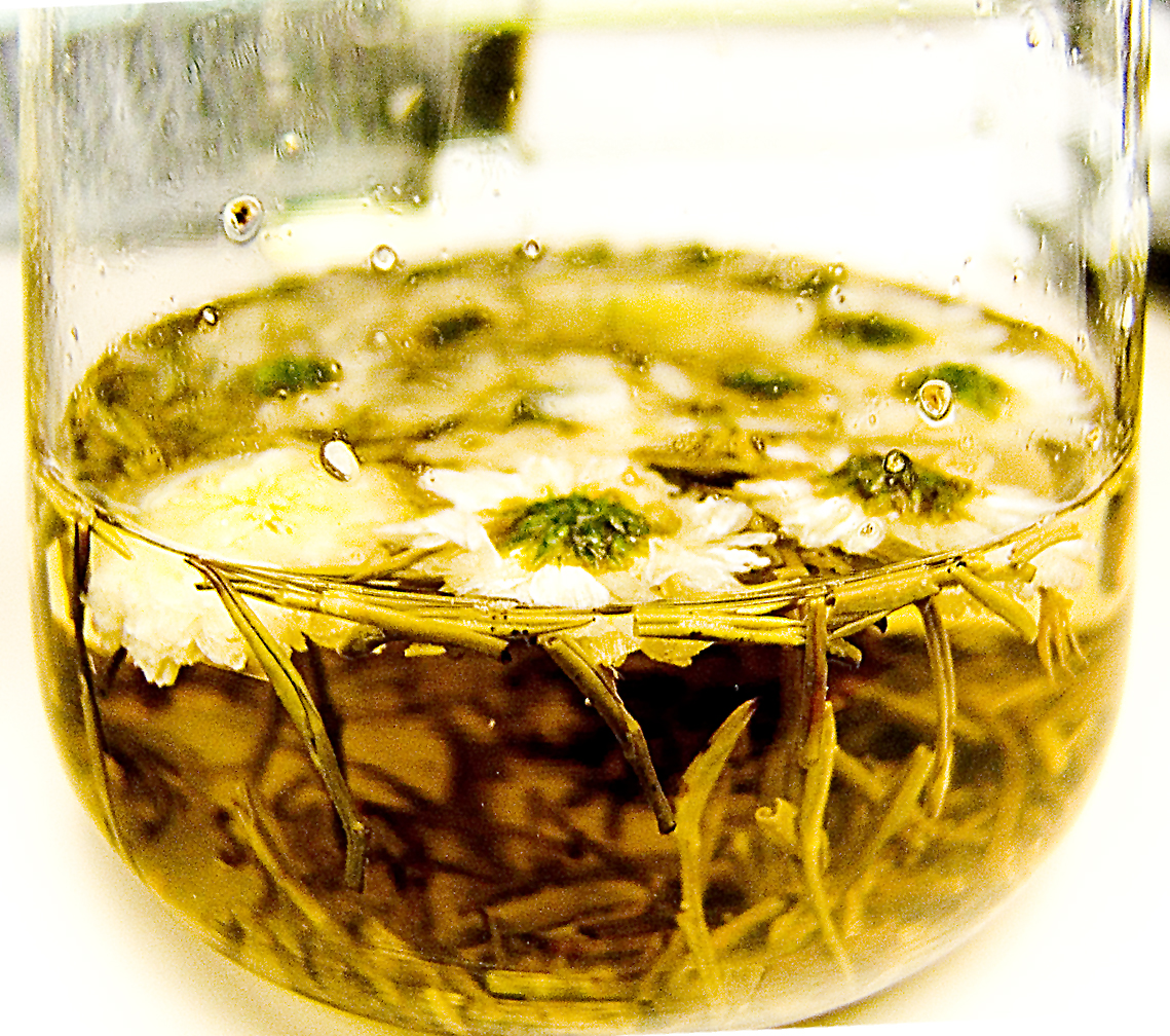 Chrysanthemum Tea upclose